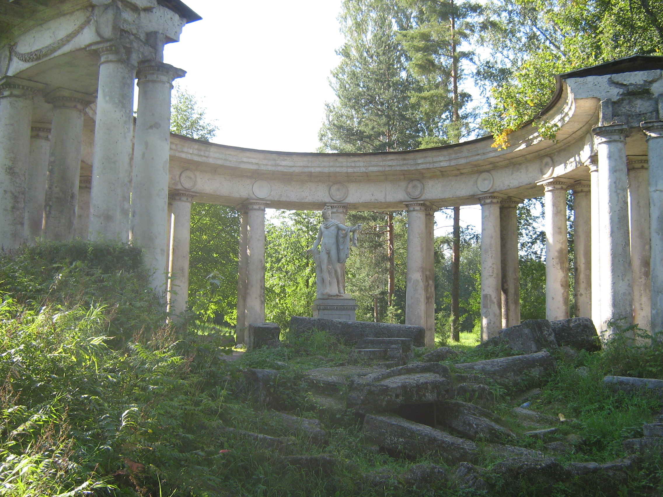 Pavlovsk (Russia)